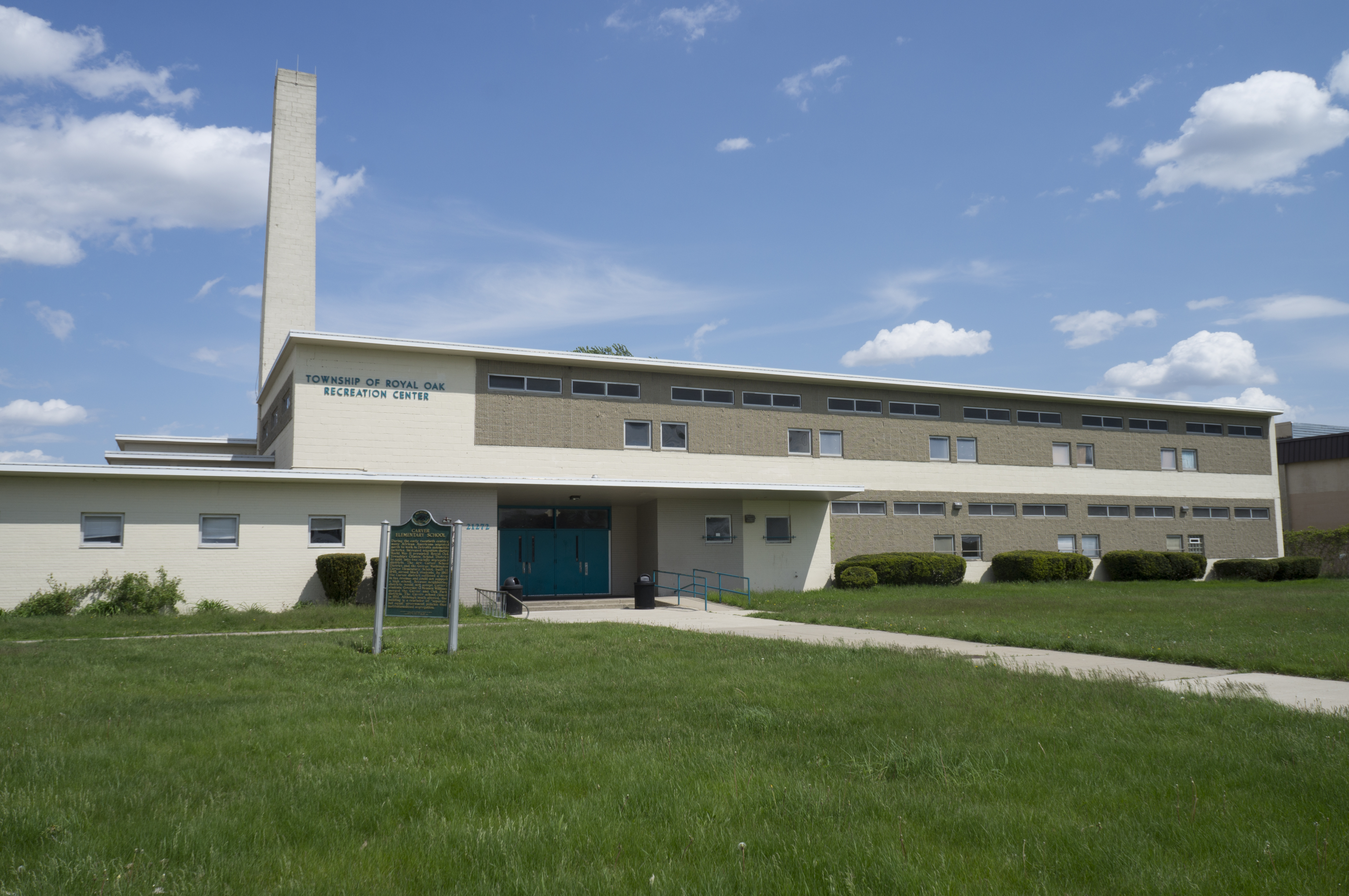 The recreation center for Royal Oak Charter Township